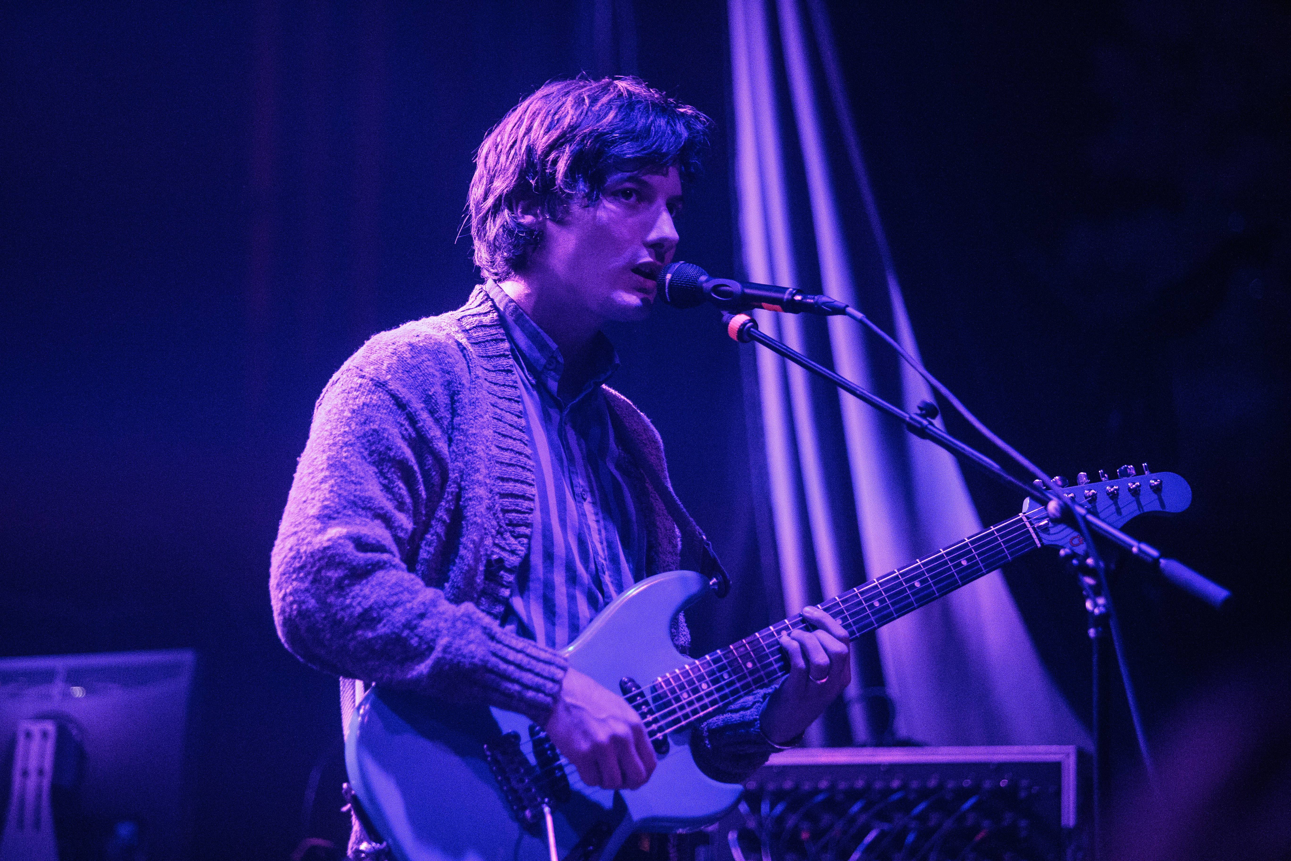 Lockett Pundt performing with Deerhunter on December 10, 2015 at Royale in Boston, Massachusetts